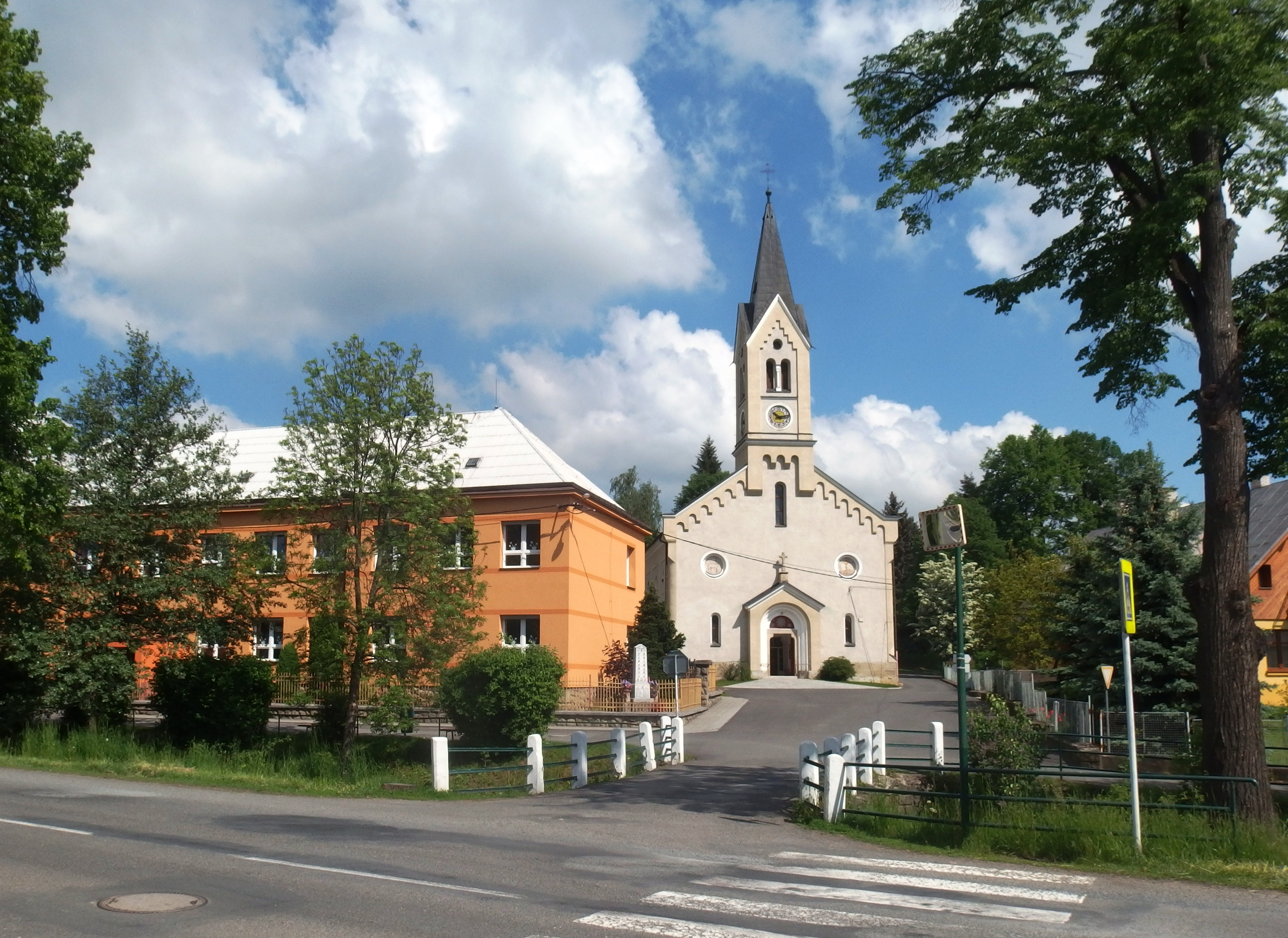 Ratiboř, Vsetín District, Czech Republic. Evangelical church.